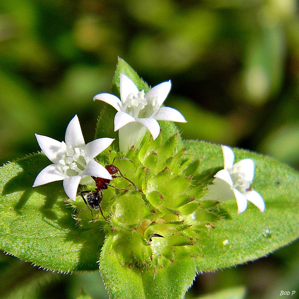 These 3mm blossoms of the invasive rough Mexican clover have just a hint of pink. This "weed" and it's cousins are often pioneer plants on disturbed, sandy, nutrient-poor ground where most plants won't grow. Honey bees & other insects like them. Originally from South America, it has become naturalized in the South and was named for English naturalist Richard Richardson.